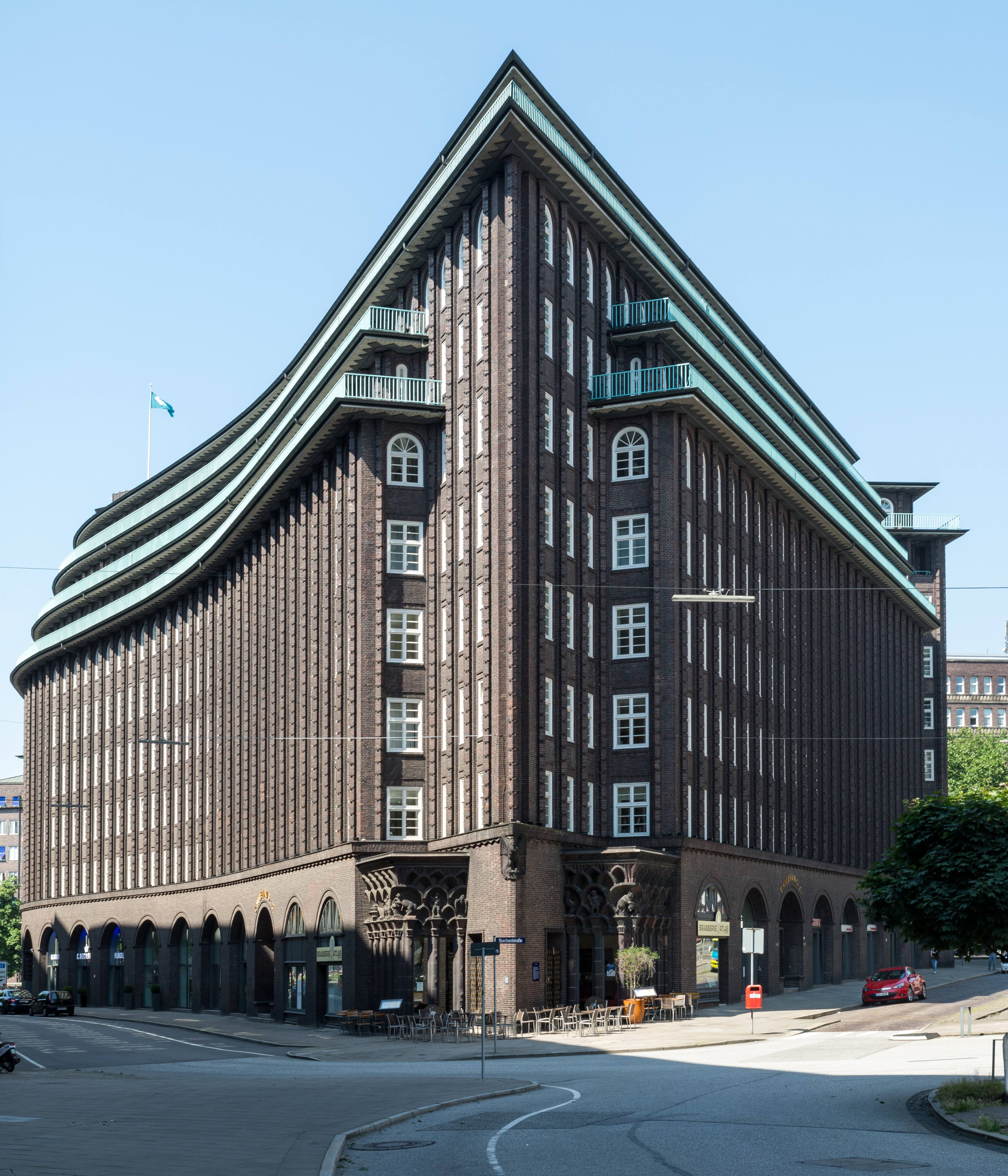 Chilehaus office building in Hamburg. This is a photograph of an architectural monument.